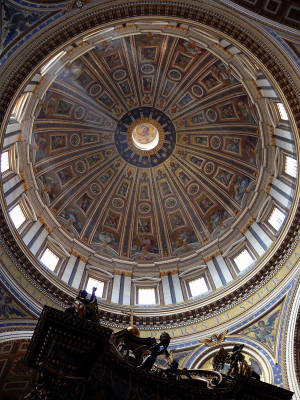 The dome of the St. Peter's Basilica in Vatican City